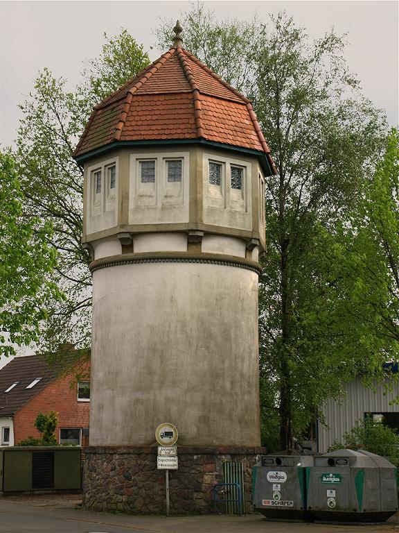 Remmels (Schleswig-Holstein, Germany), water tower , photo 2009